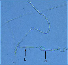 Photograph of Ceratocystis fagacearum (oak wilt fungus) endoconidia